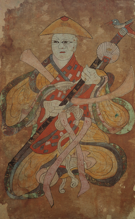 This is a portrait of Jeseok, the Korean shamanistic deity of fertility. The portrait was one of twelve paintings worshipped at the shamanic shrine of Naewat-dang, Jeju Island, South Korea, which was destroyed in 1882. The paintings were rescued by the shaman who had served the shrine, and passed to the Jeju National Museum when the shaman's wife died in 1963. While not of high quality aesthetically, they are important as the only known shamanic paintings from Jeju Island, where shamans traditionally do not visually depict their gods. While it is impossible to know precisely when the painting was made, the gods' robes reflect mid-Joseon (sixteenth-century) fashion.